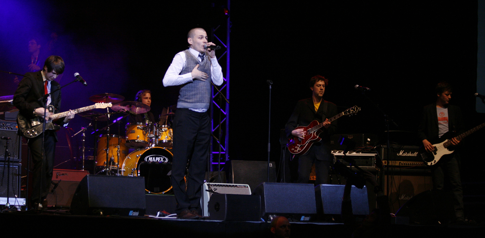 Mondscheiner; charity concert 'atemberaubend 08' in support of researching pulmonary hypertension (lungenhochdruck.at) at the Wiener Stadthalle.